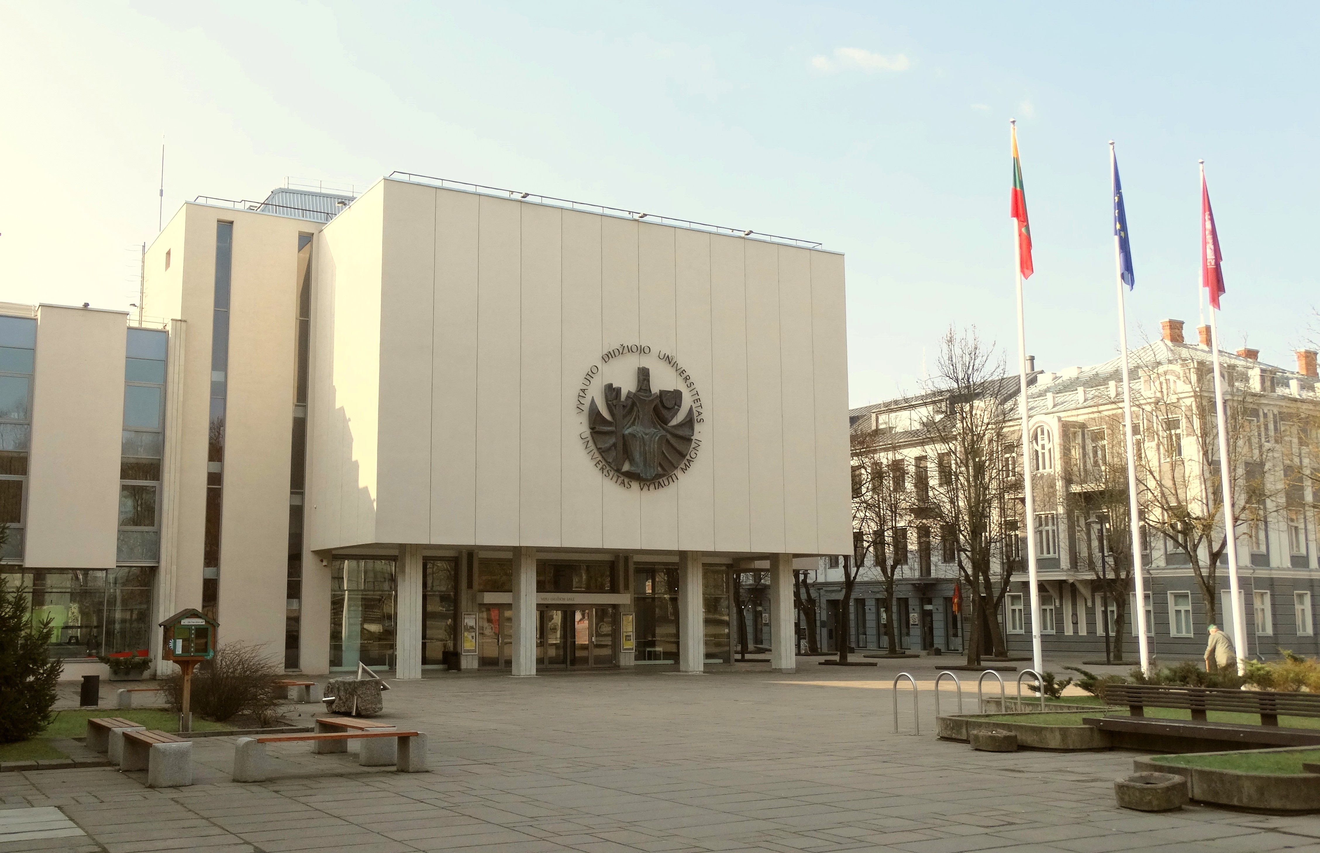 Central building, Vytautas Magnus University, Kaunas